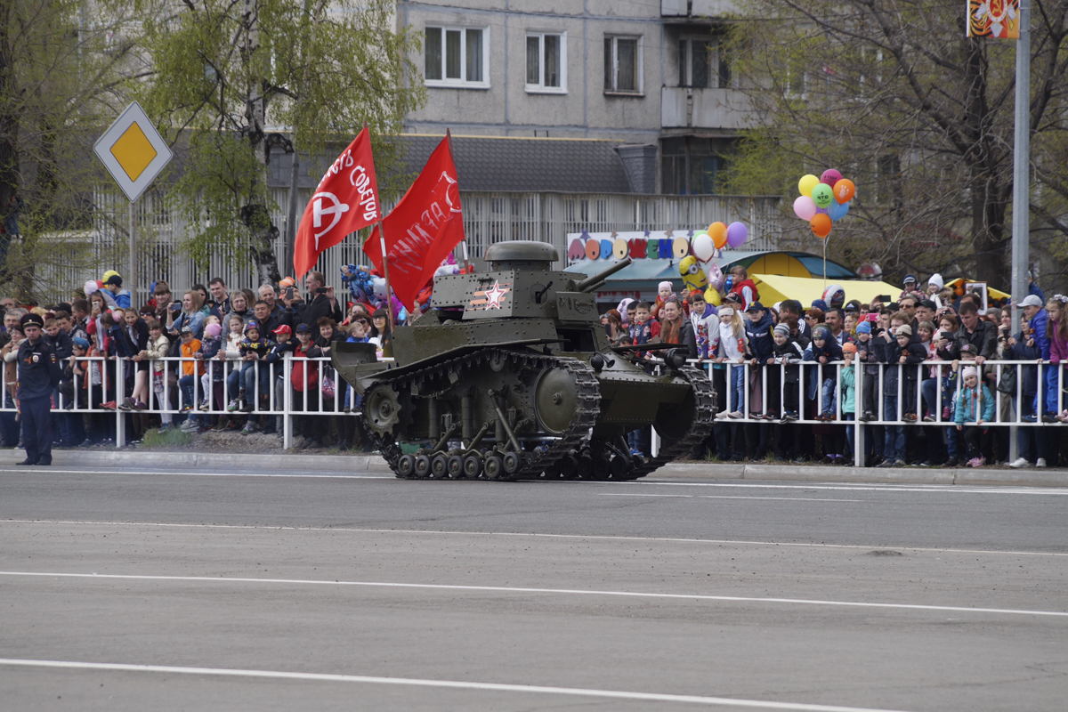 Soviet T-18 light tank.